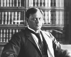 Hiram Chase, Esg., county attorney, judge and linguist. Omaha Tribal Historical Research Project Archives Other information No.